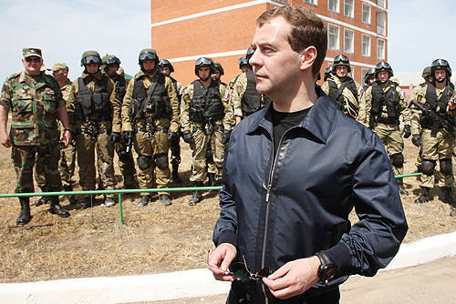 President Dmitry Medvedev visiting the FSB Special Forces Centre in Makhachkala, Dagestan on 9 June 2009